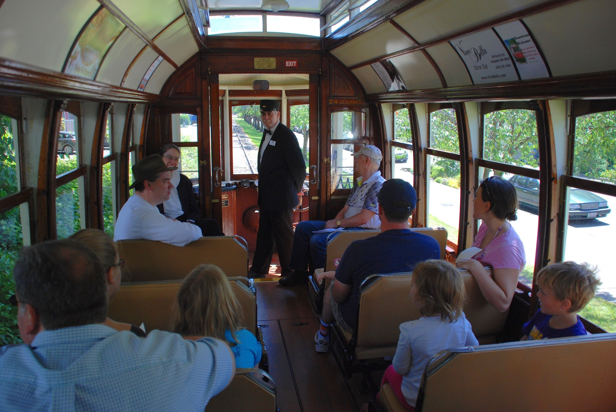 Interior of Issaquah Valley Trolley car 519 loaded with passengers during a trip on the line. Car 519 is ex-Lisbon No. 519 and was built in kit form by the American J. G. Brill Company and assembled in Portugal in 1925. One remnant of its service career in Portugal still visible here is the lettering "24 lugares" (located just to the right of the motorman), which is Portuguese for "24 seats", the car's seating capacity.